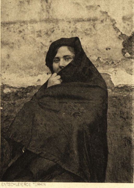 Turkish woman from Ohrid region, Macedonia.